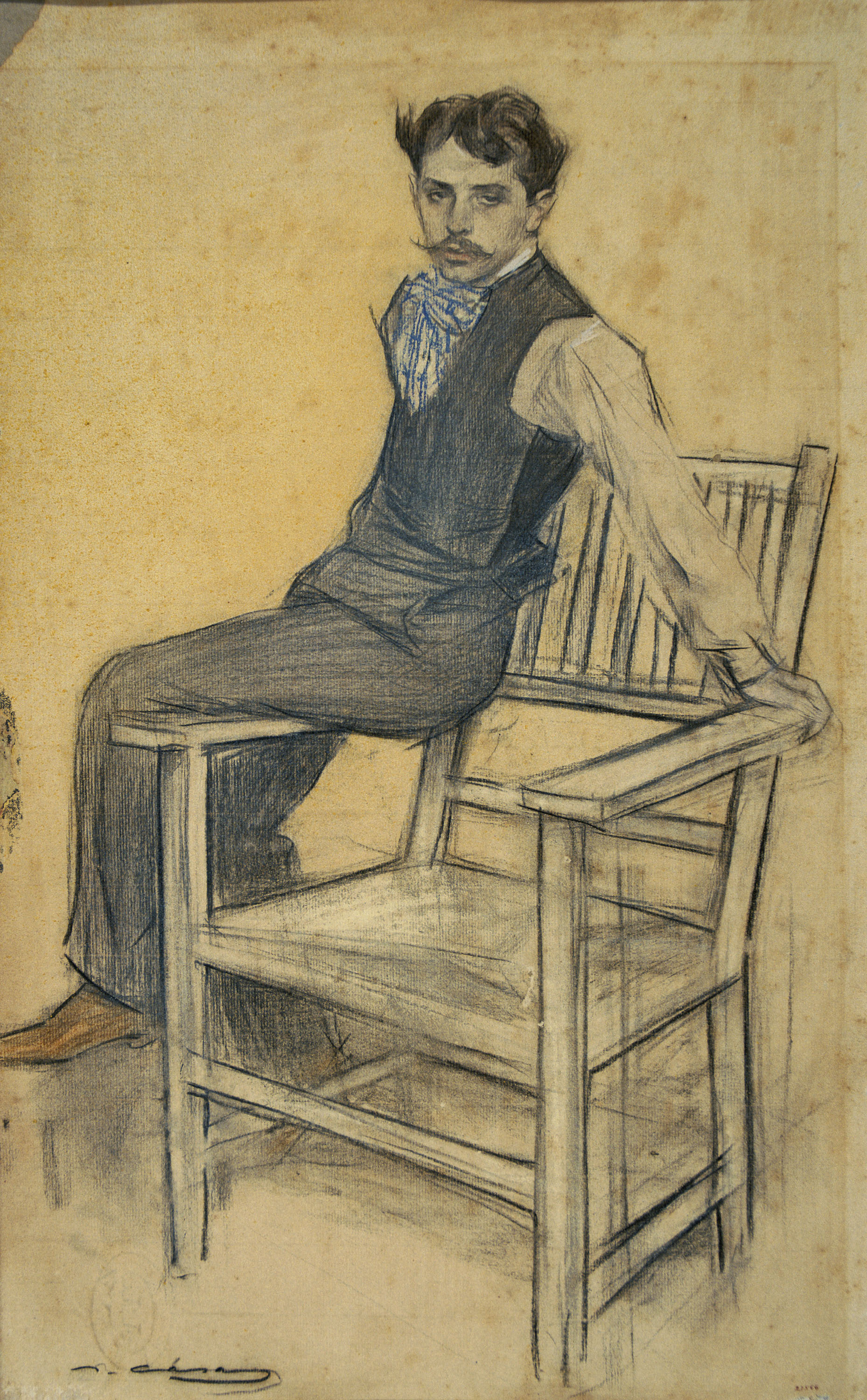 Portrait by Ramon Casas conserved at MNAC in Barcelona.